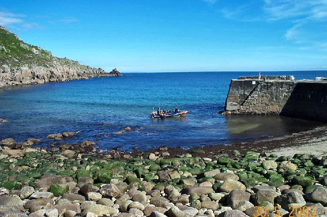 Lamorna Cove. This harbour is popular with visiting boats. Note the storm damage to the solid granite wall.